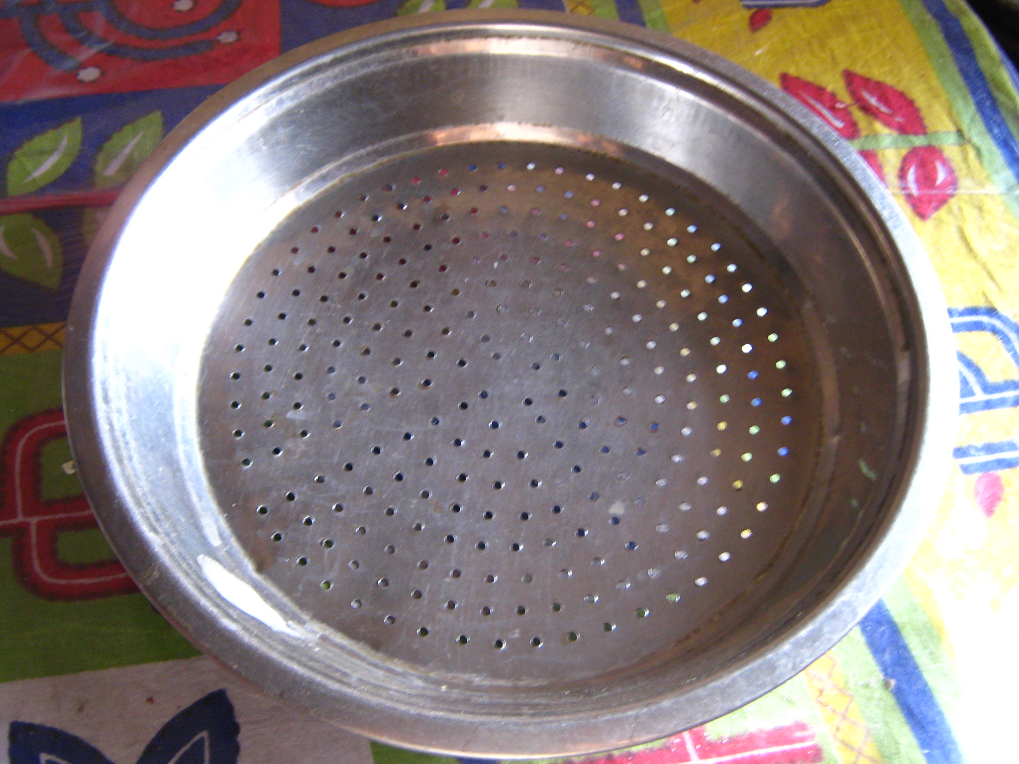 utensils used in Indian kitchen.